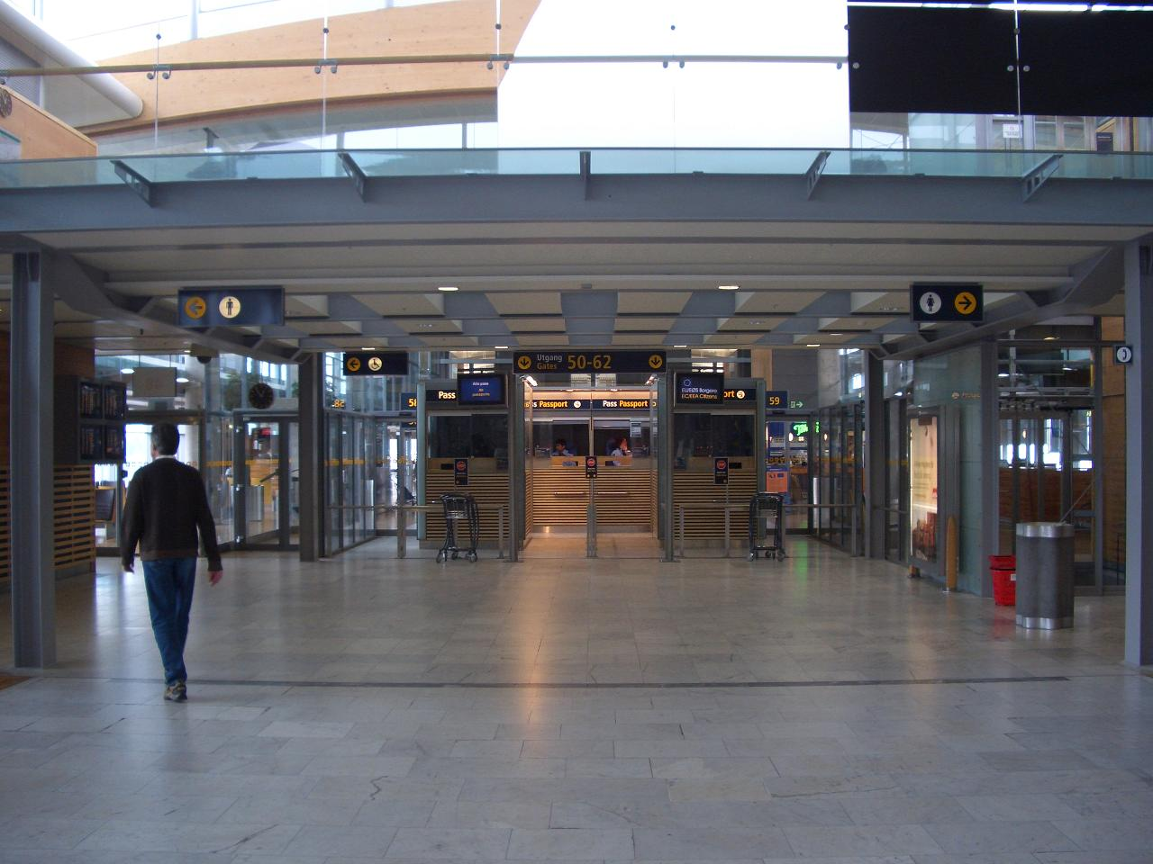 Passport control gate at Oslo Airport